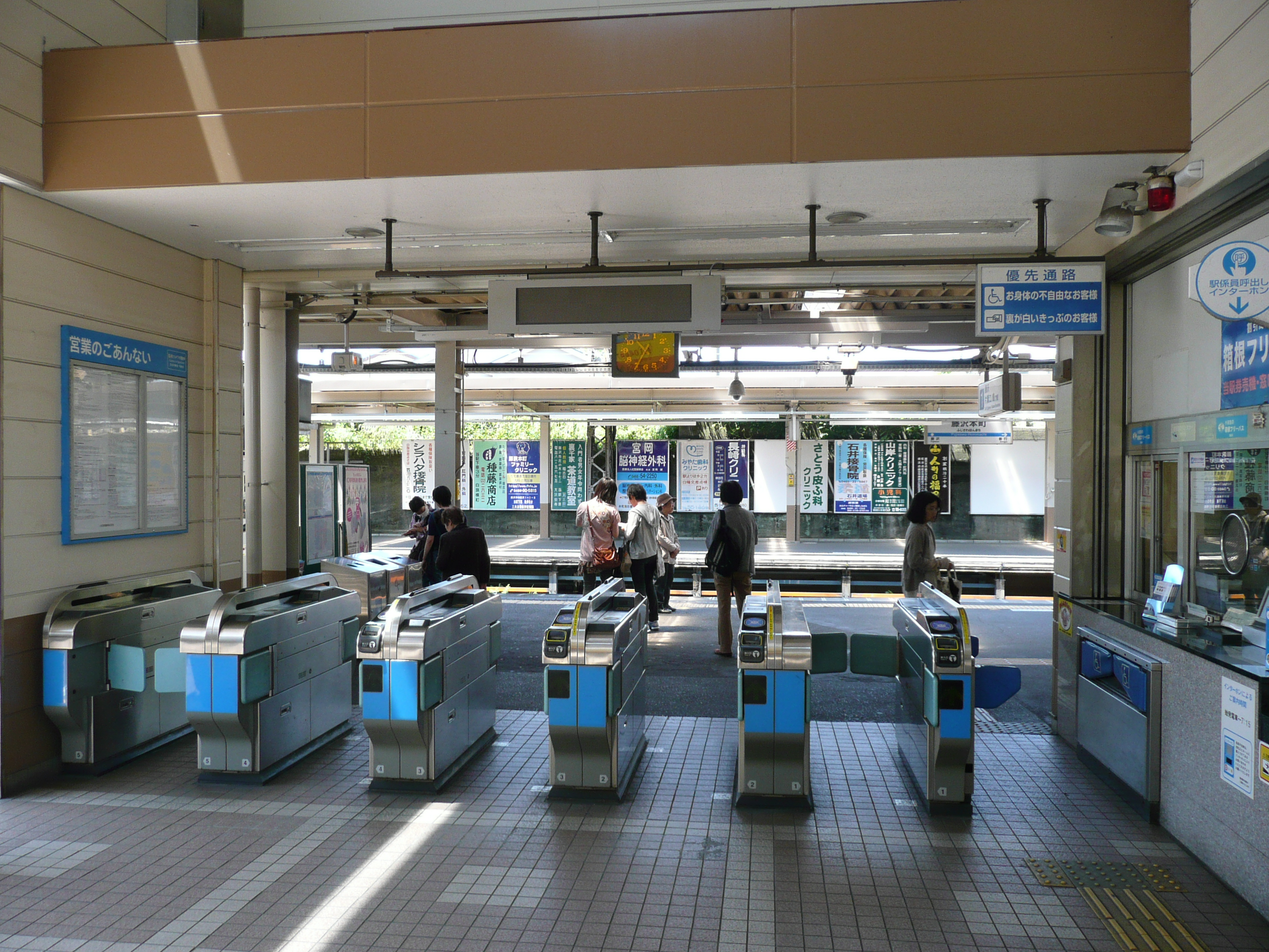 Ticket gate of Fujisawa-Hommachi Station